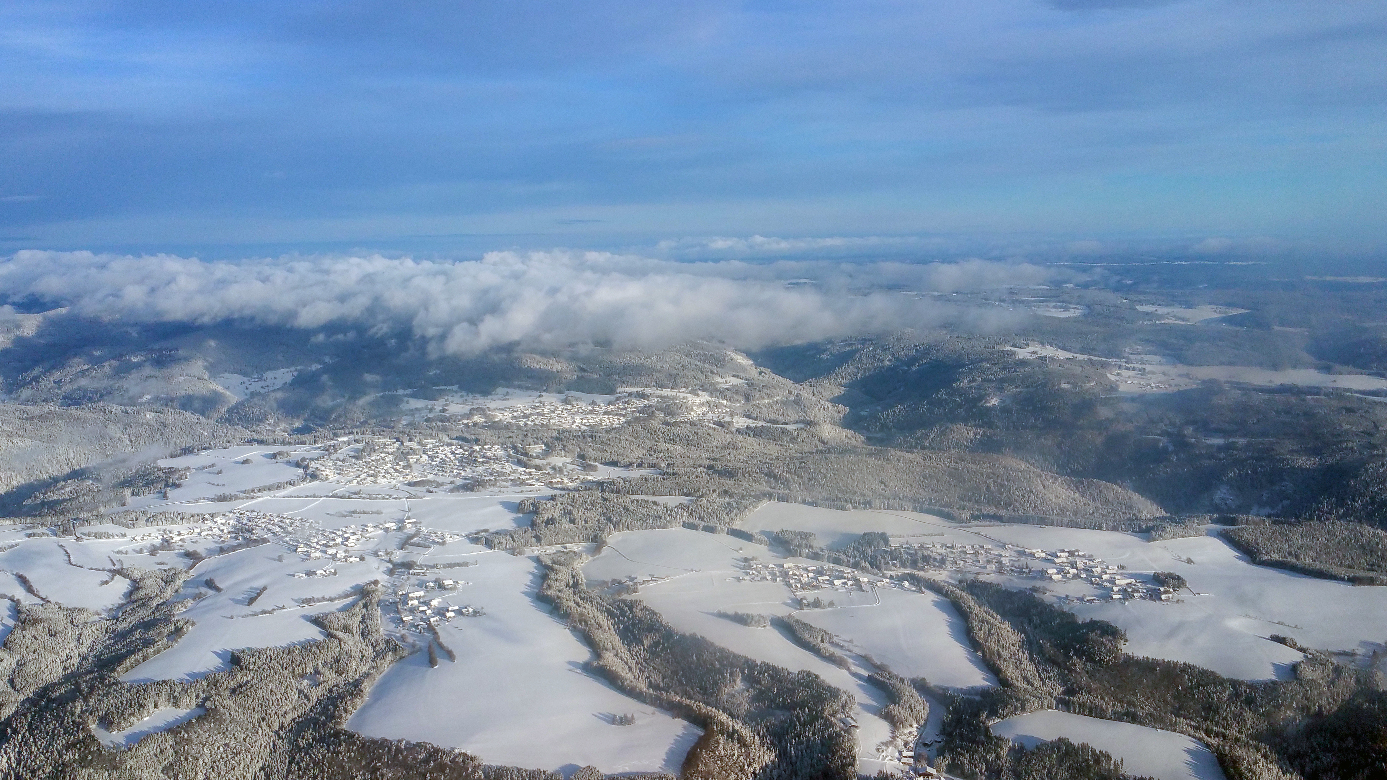 Germany, Baden-Württemberg, approach into ZRH across the Southern part of Black Forest